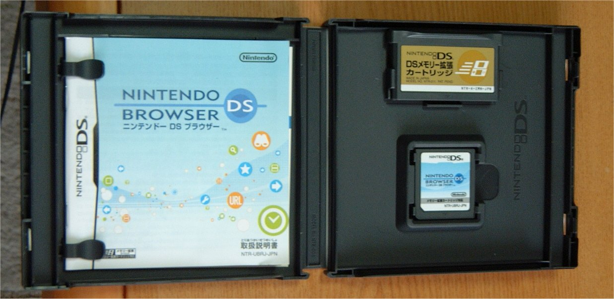 Nintendo DS Browser package (Japanese version) including: "Memory Expansion Pak" cartridge, DS Card (for browser itself), user manual and case